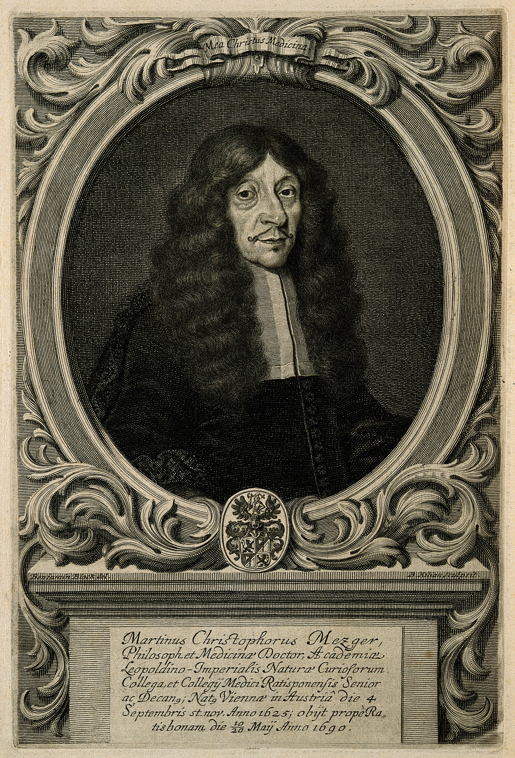 Martin Christoph Mezger. Line engraving by B. Kilian after B. Block. Iconographic Collections Keywords: portrait prints; Bartholomäus Kilian; engravings; B. Block; Martin Christoph Mezger